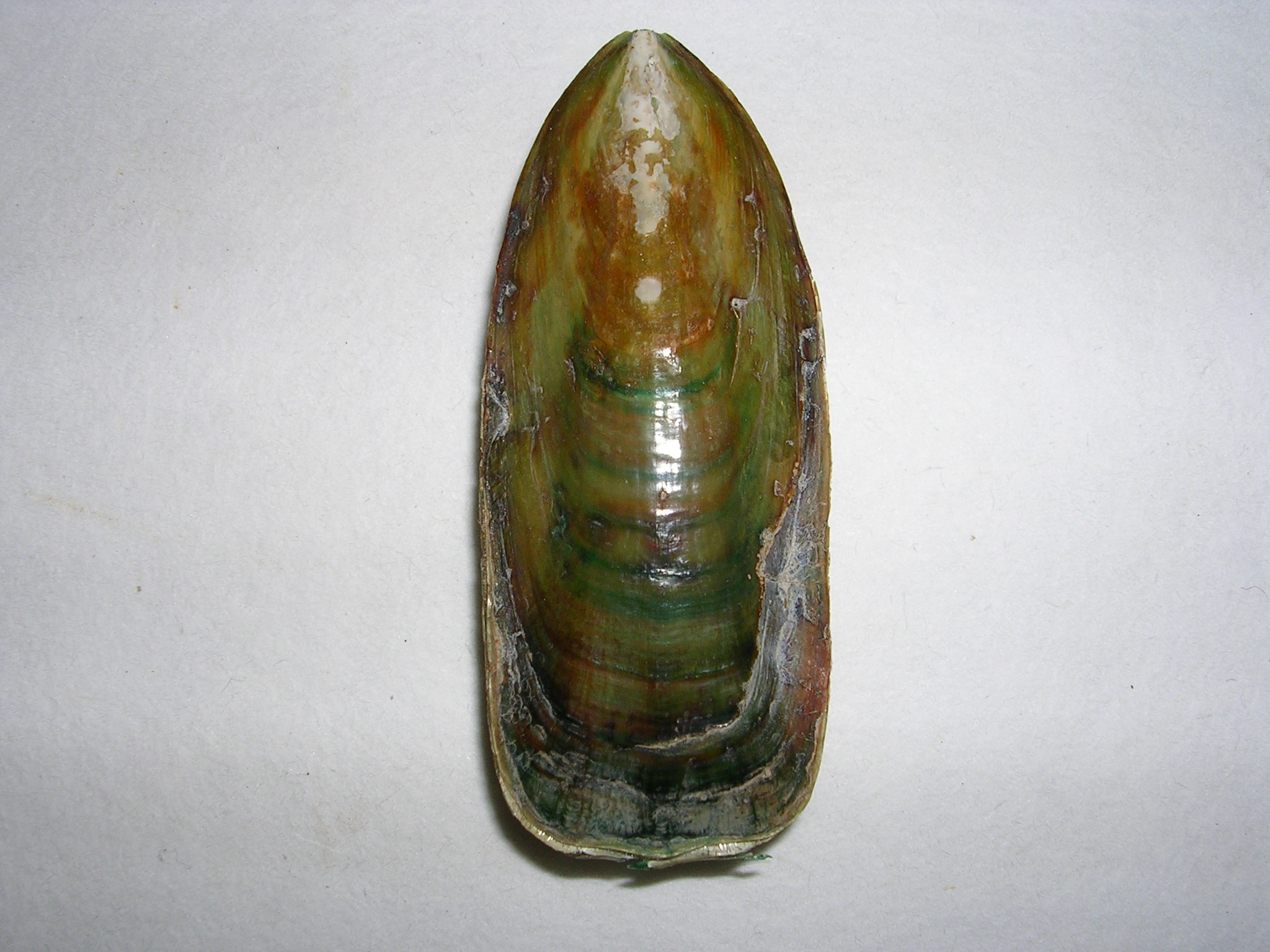 Lingula anatina shell found in the Mediterranean Sea, in a laboratory of practices of the Faculty of Sciences of the University of Corunna.